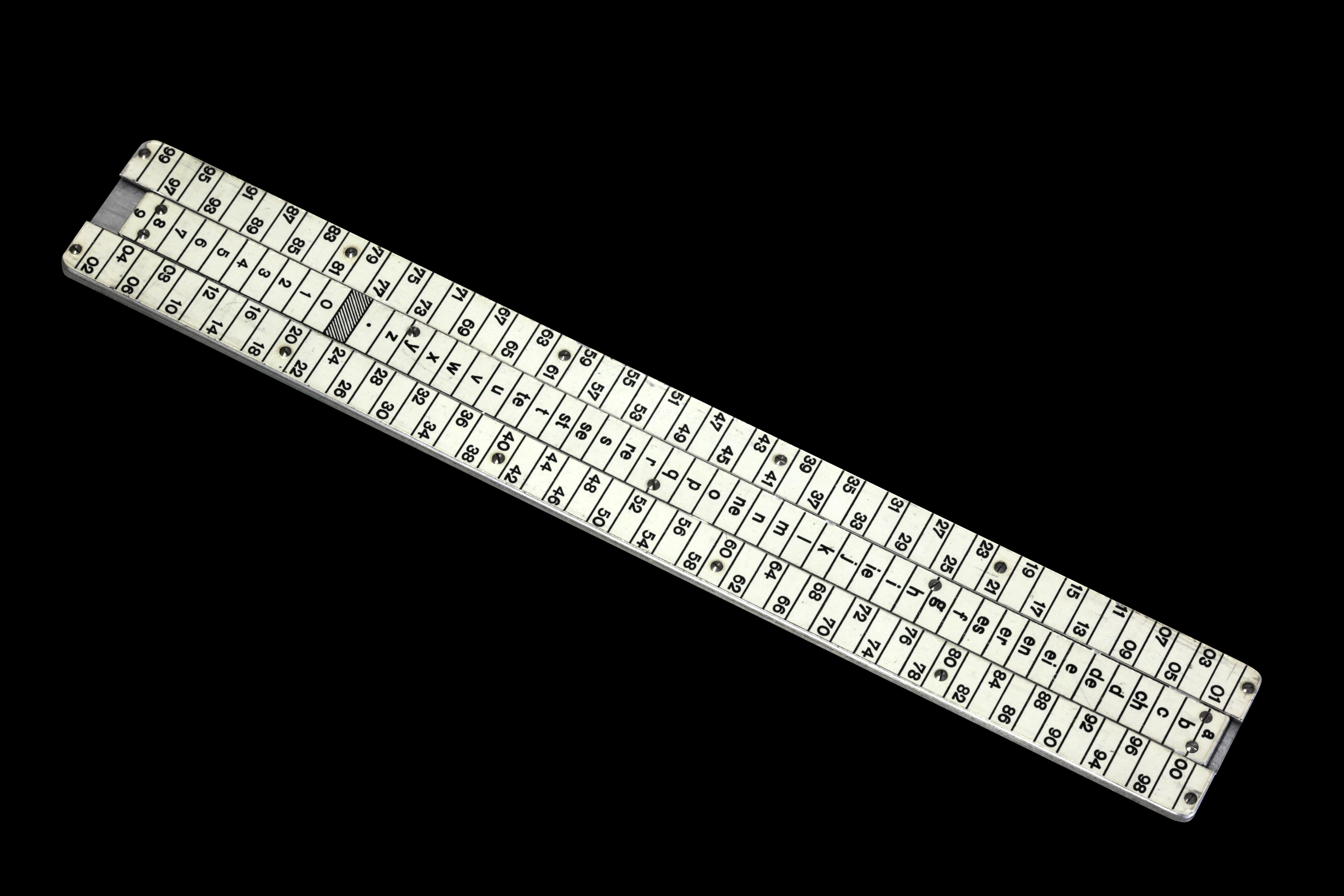 Cryptographic slide rule used by the Swiss Army between 1914 and 1940. Cryptography collection of the Swiss Army headquarters The making of this document was supported by Wikimedia CH. (Submit your project!) For all the files concerned, please see the category Supported by Wikimedia CH.